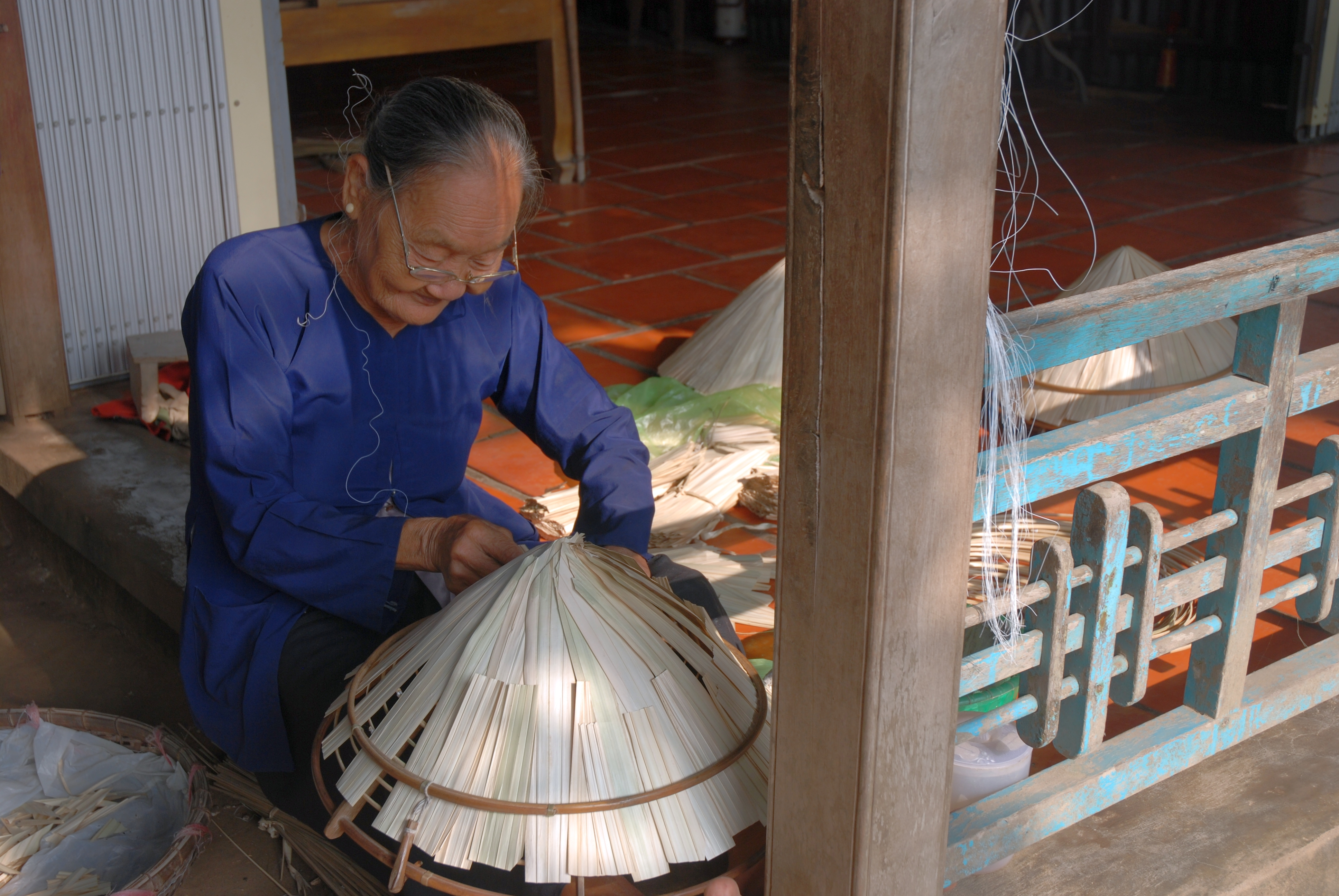 Hatter in Mekong Delta, Vietnam, making traditional Conical Asian hat